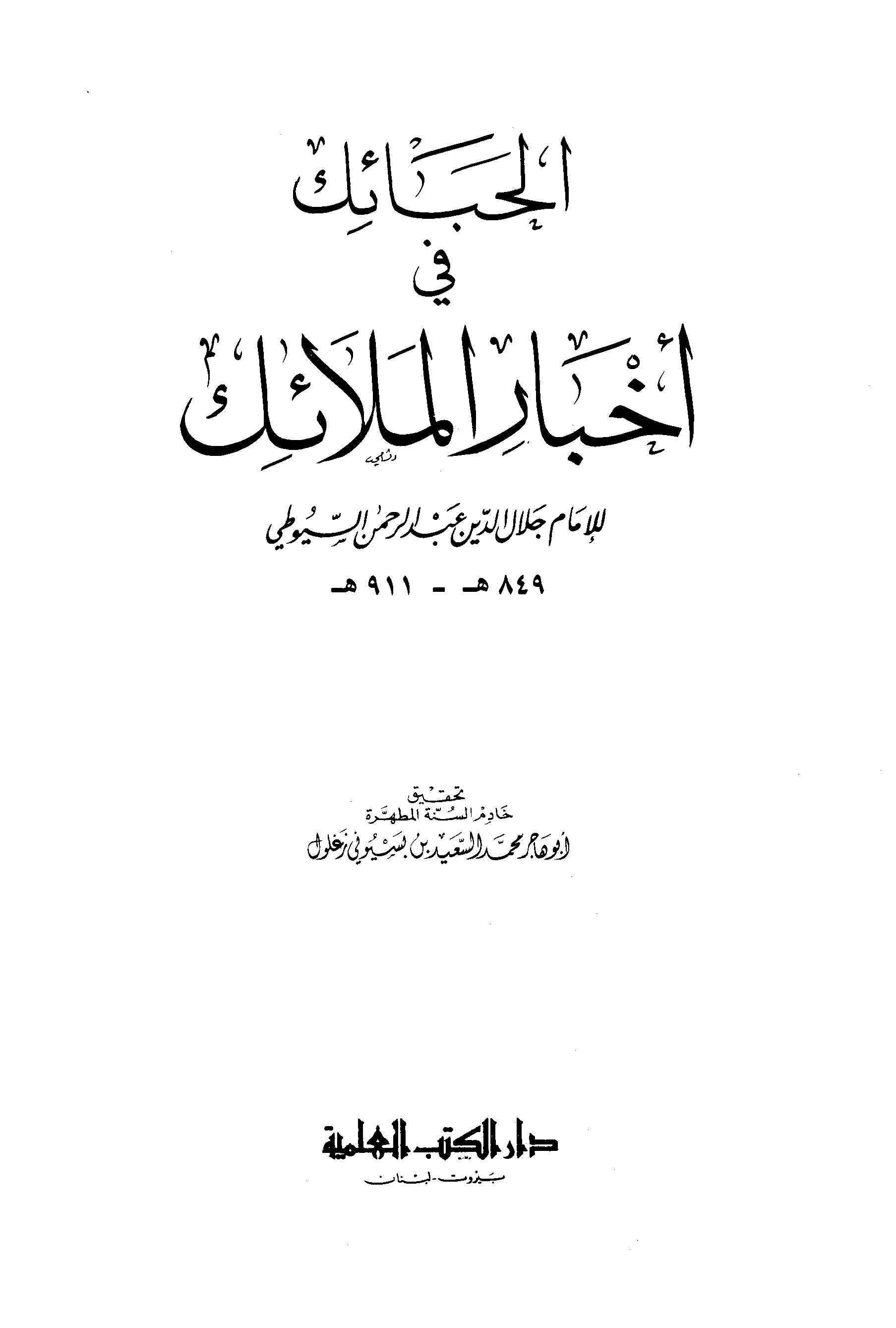 Al-Habaik fi Akbar-ul-Malaik, Suyuti- 1985